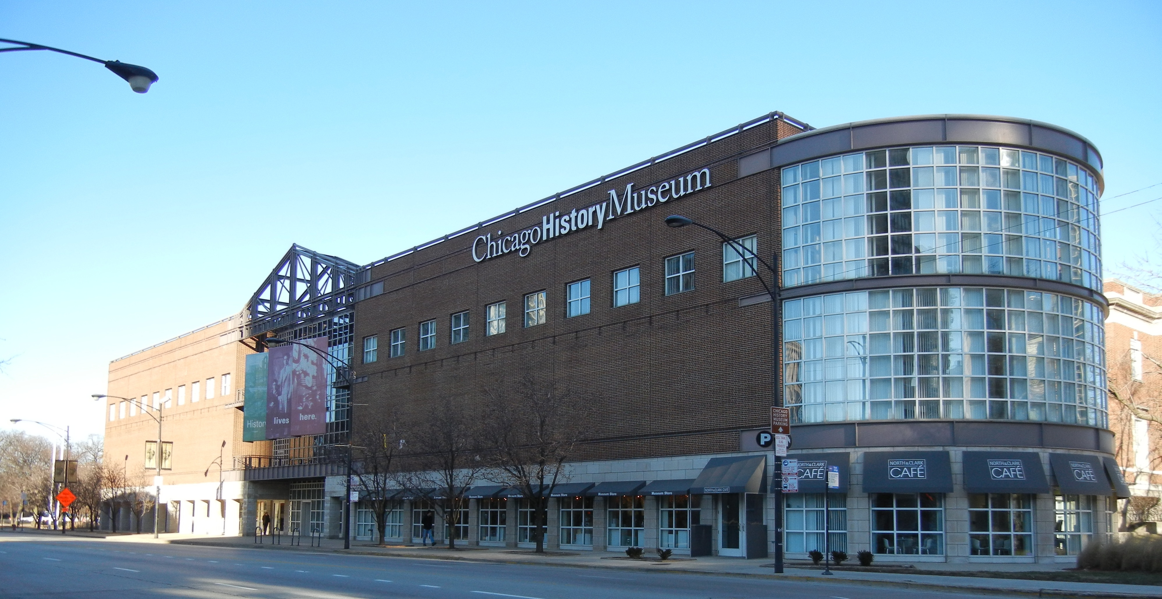 Clark Street facade of the Chicago History Museum